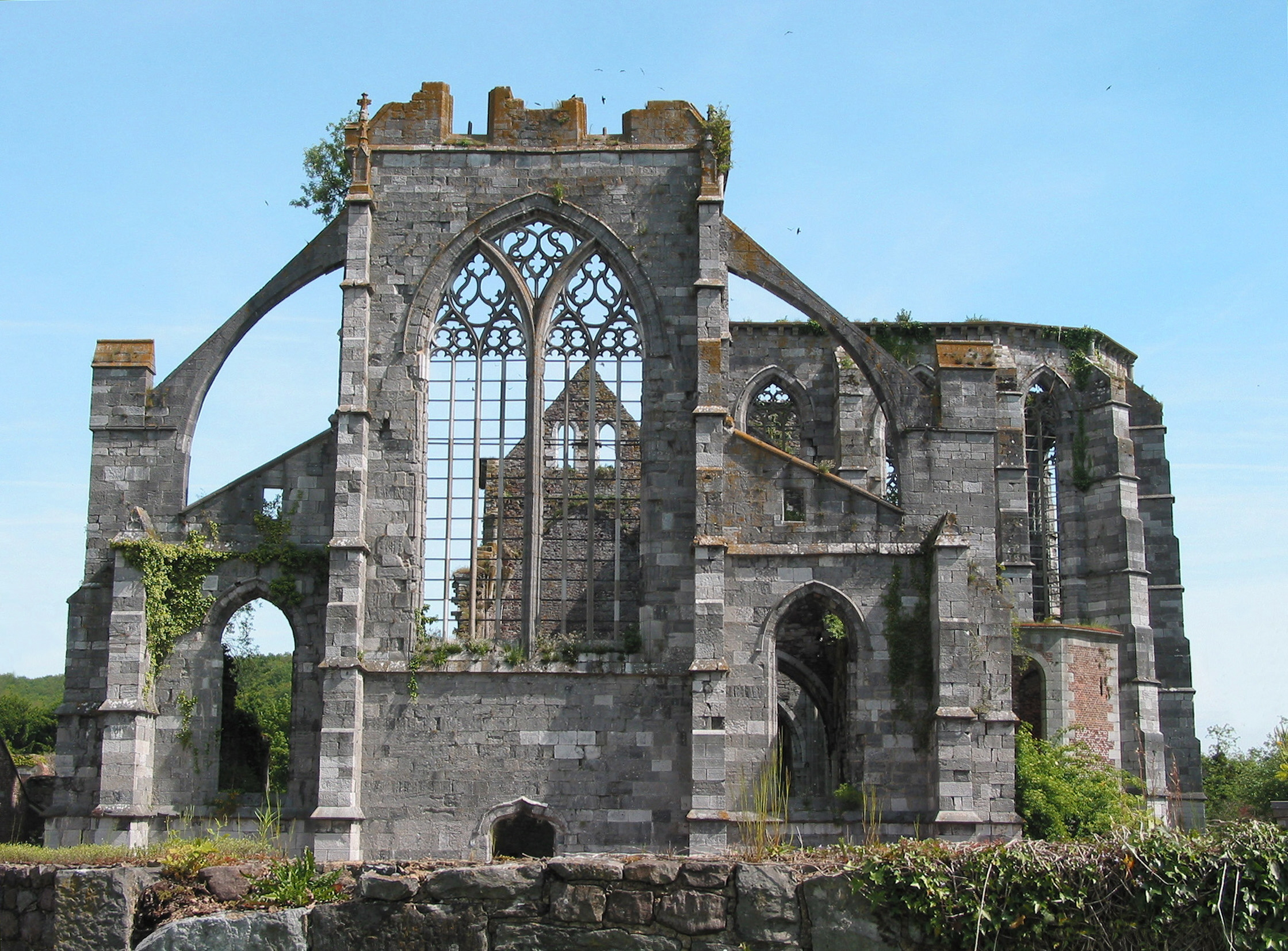 Gozée (Belgium), former cistercian abbey, destroyed in 1794; ruins of the abbabtial church.